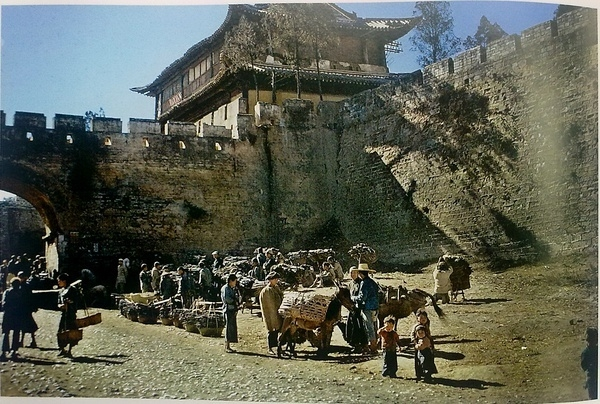 ancient city wall in Kunming